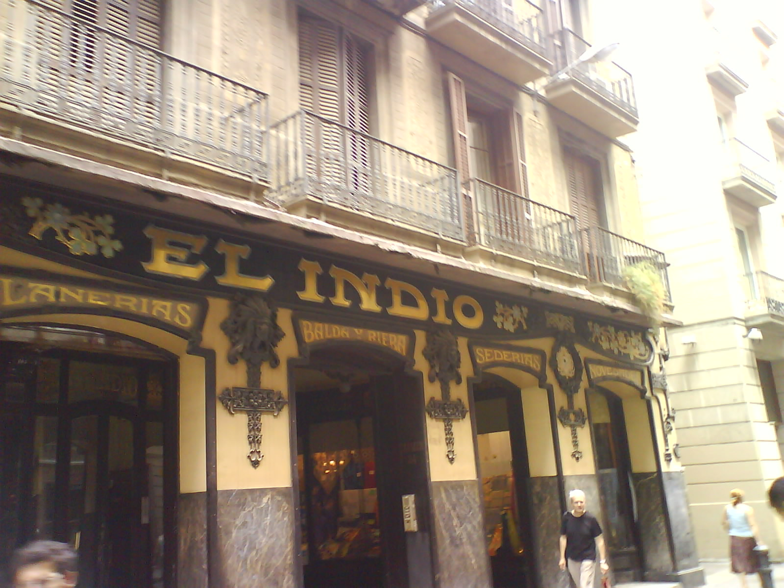 Carrer del Carme. A large traditional shop in Carrer del Carme.